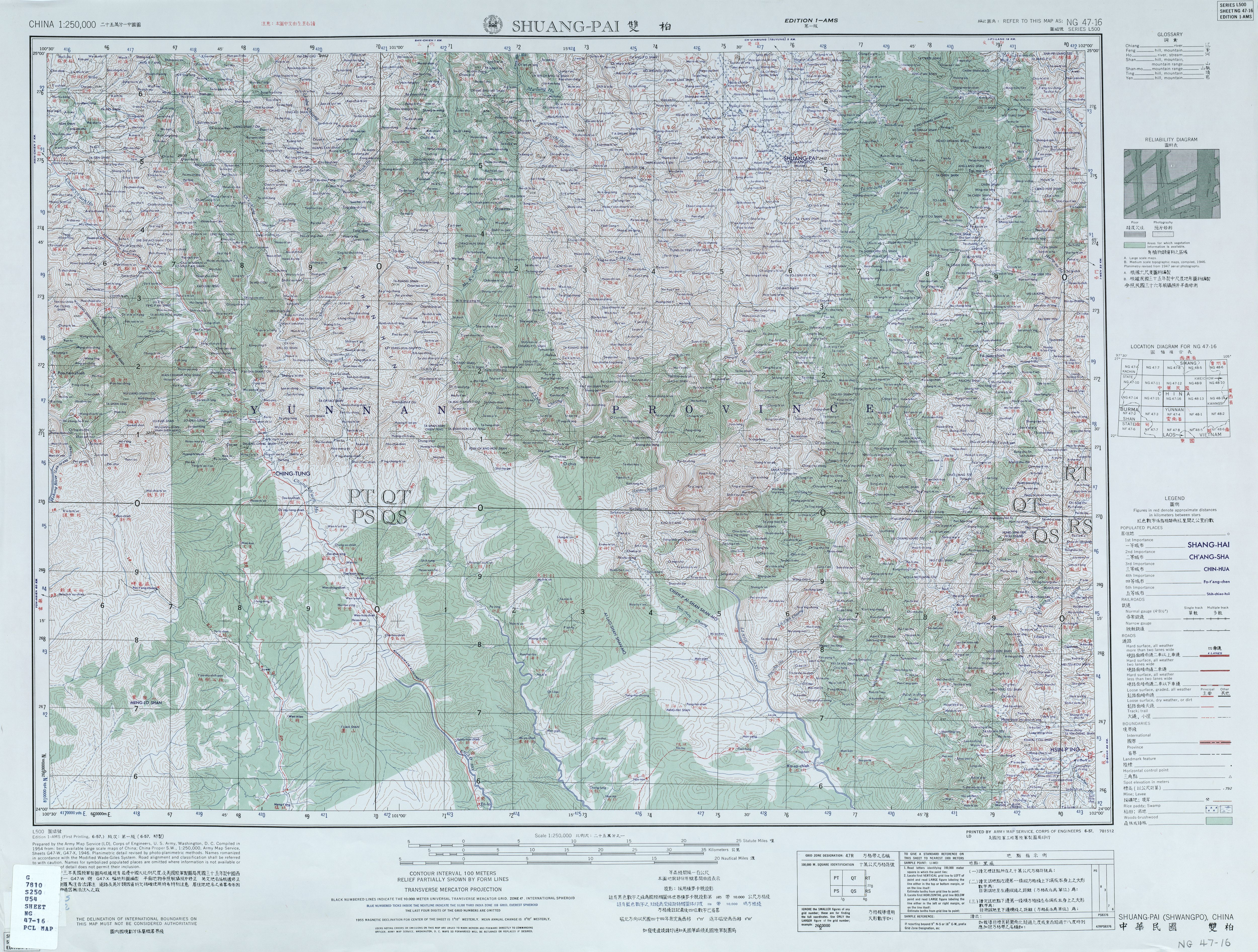 China AMS Topographic Maps